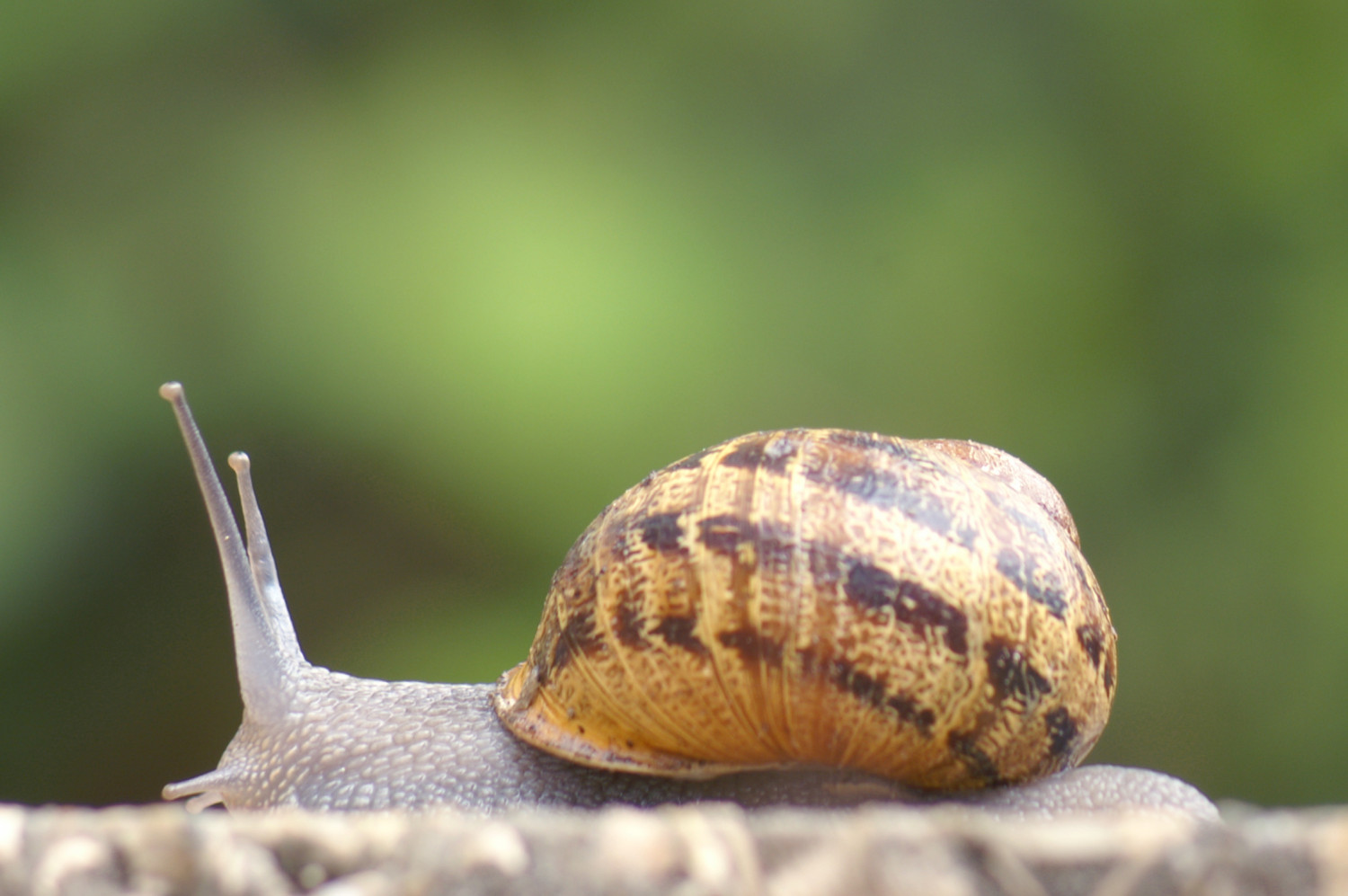 A Snail in Tel-Aviv after the first rain of winter 2009